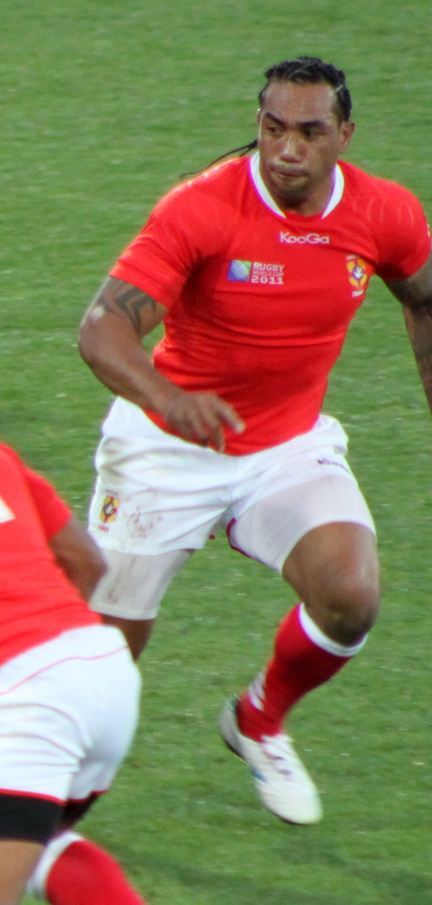 Tongan rugby union player Samiu Vahafolau during 2011 Rugby World Cup match against France.